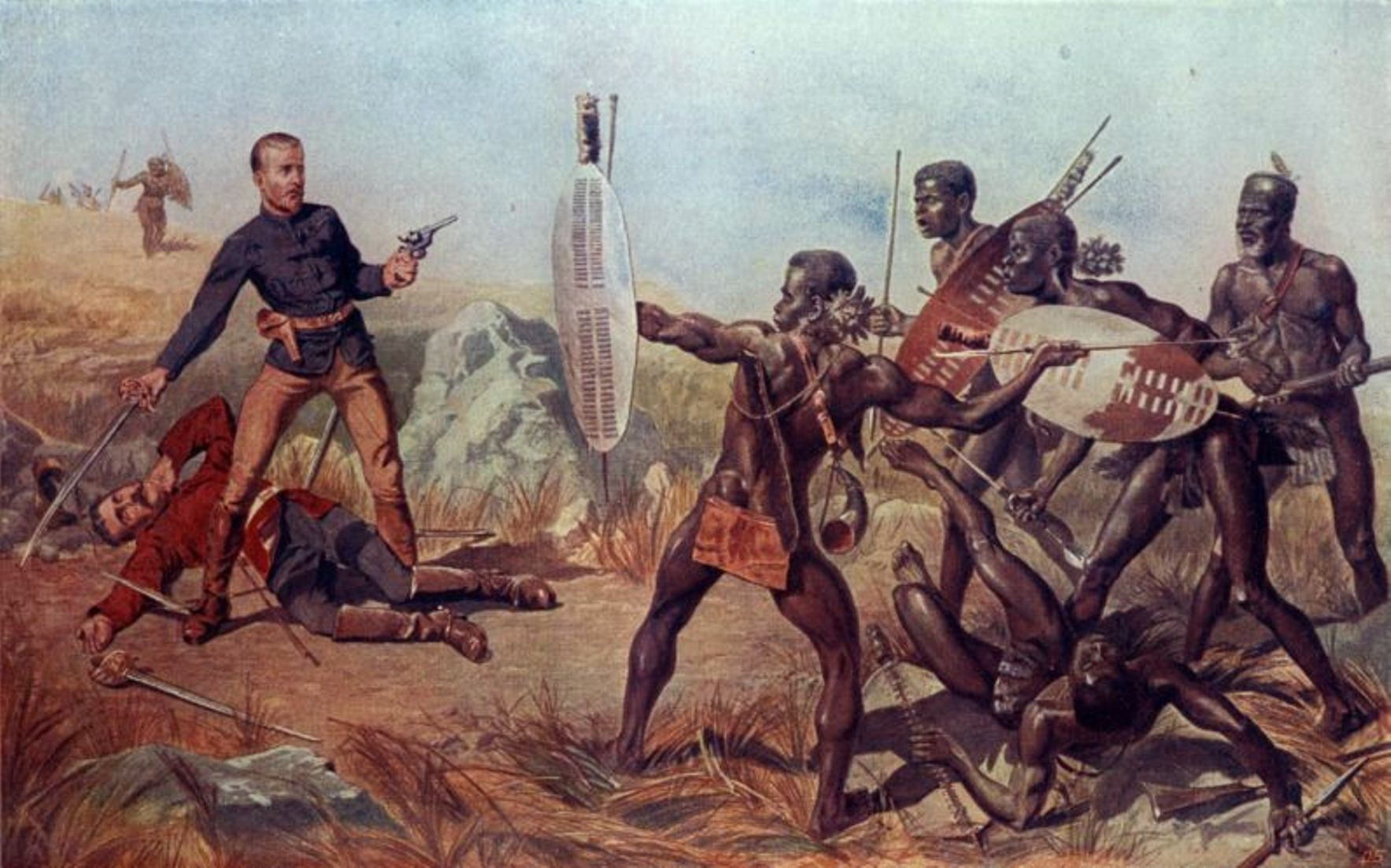 LIEUTENANTS MELVILL and COGHILL (24th REGIMENT) DYING TO SAVE THE QUEEN'S COLOURS. An Incident at the Battle of Isandlwana. Charles Edwin Fripp (1854–1906) Alternative names Charles Edward FrippDescriptionEnglish painter, draughtsman and illustratorDate of birth/death 4 September 1854 1906Location of birth/death London MontrealAuthority control : Q614466 VIAF: 51963347 ISNI: 0000 0000 6662 7325 ULAN: 500007405 BNF: 14974255h RKD: 29544 creator QS:P170,Q614466 Public domain from Project Guttenberg, as stated in licensing at URL above: "This eBook is for the use of anyone anywhere at no cost and with almost no restrictions whatsoever. You may copy it, give it away or re-use it under the terms of the Project Gutenberg License included with this eBook or online at "Gutenberg is a registered trademark, and may not be used if you charge for the eBooks, unless you receive specific permission. If you do not charge anything for copies of this eBook, complying with the rules is very easy. You may use this eBook for nearly any purpose such as creation of derivative works, reports, performances and research. They may be modified and printed and given away--you may do practically ANYTHING with public domain eBooks.